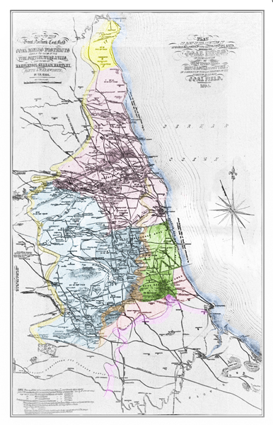 Thomas Young Hall's illustration of the geography and geology of the North Eastern coalfield as it was known in 1854 and published in the North of England Institute of Mining and Mechanical Engineers Transactions.